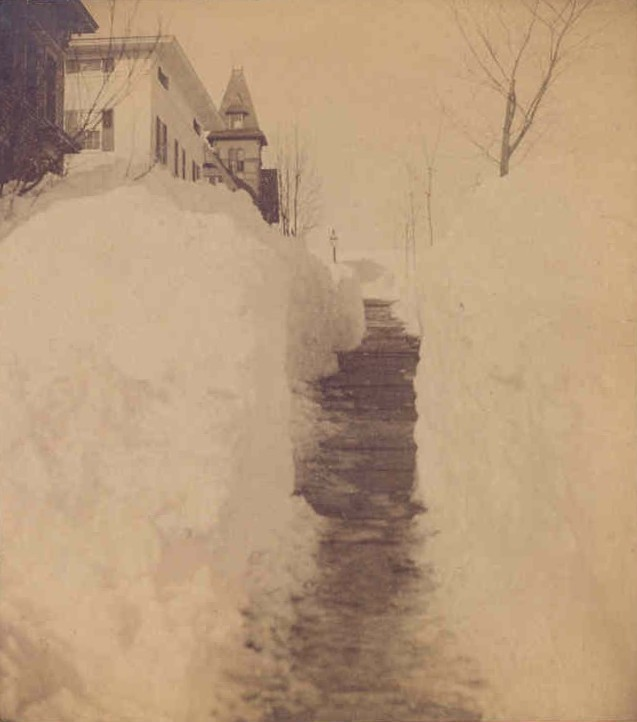 Stereoview picture of Grand Street in New Britain, published by F. W. Allderige in 1888. Store Web page shows handwritten note stating: "Grand St. New Britain Mar 13 - 1888, but store Web page states: "Stereoview photograph published by F. W. Allderige, New Britain, CT. illustrating the height of Snow left two days earlier during the March 11th Blizzard of 1888." Picture is the right-hand image of the two used for stereoviews. Storm was the Great Blizzard of 1888.